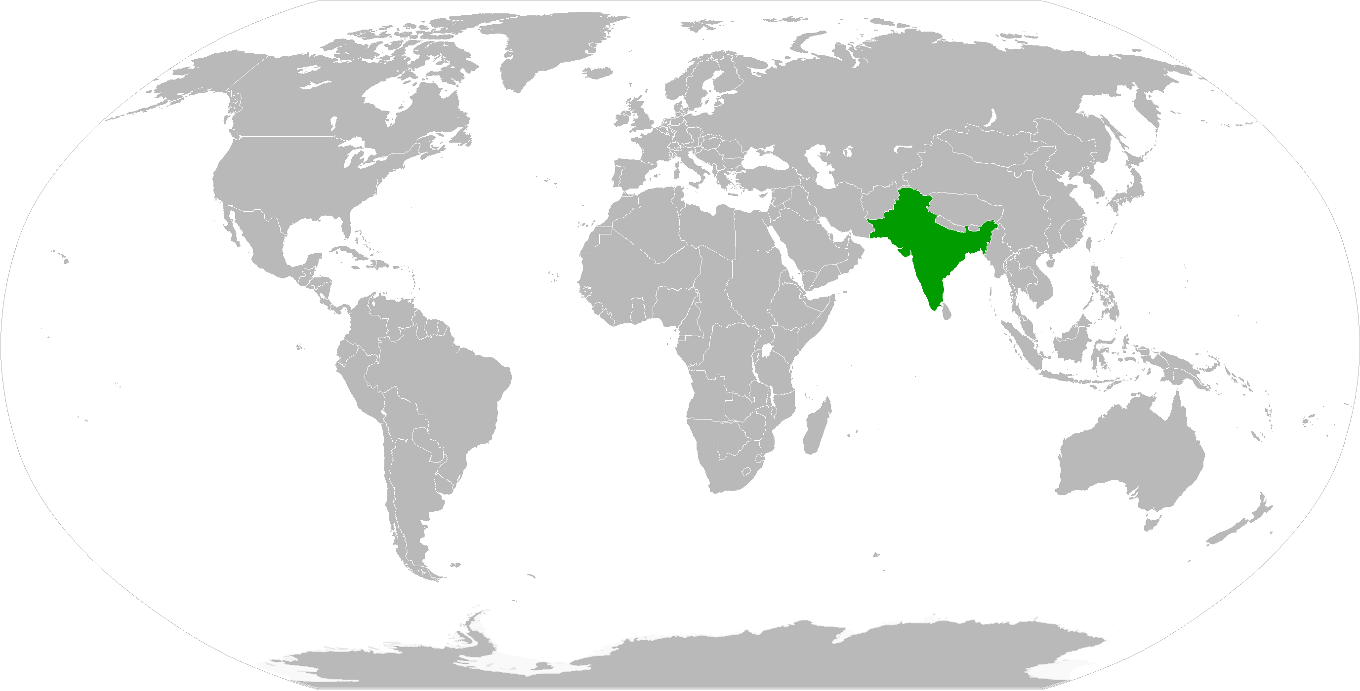 The Indian Empire in 1945